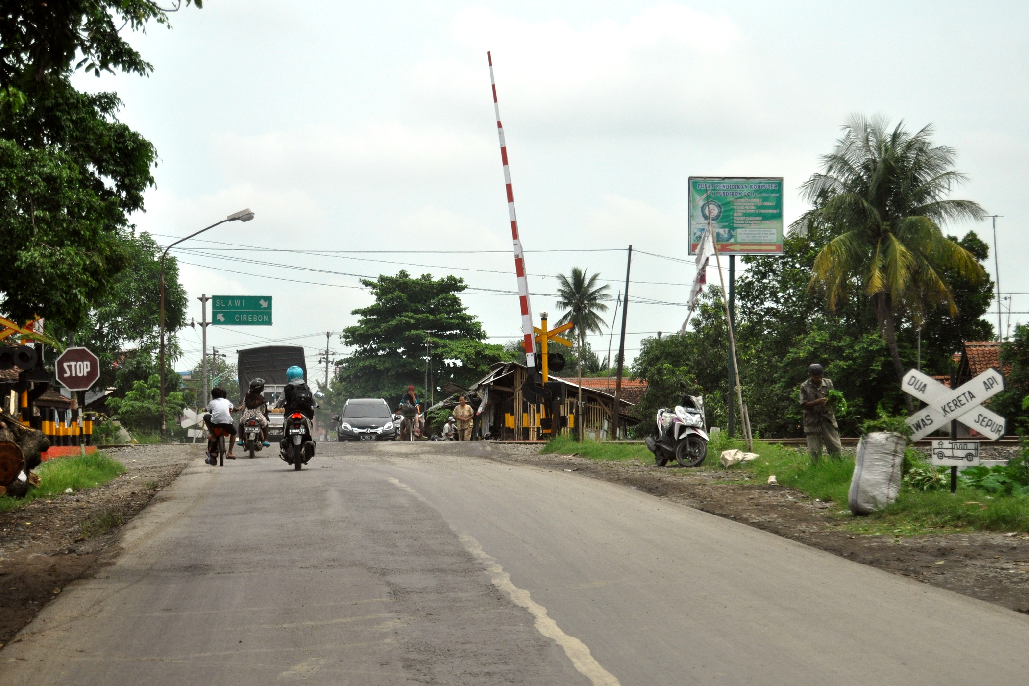 Level crossing near Ketanggungan train station, Brebes, Central Java, Indonesia.